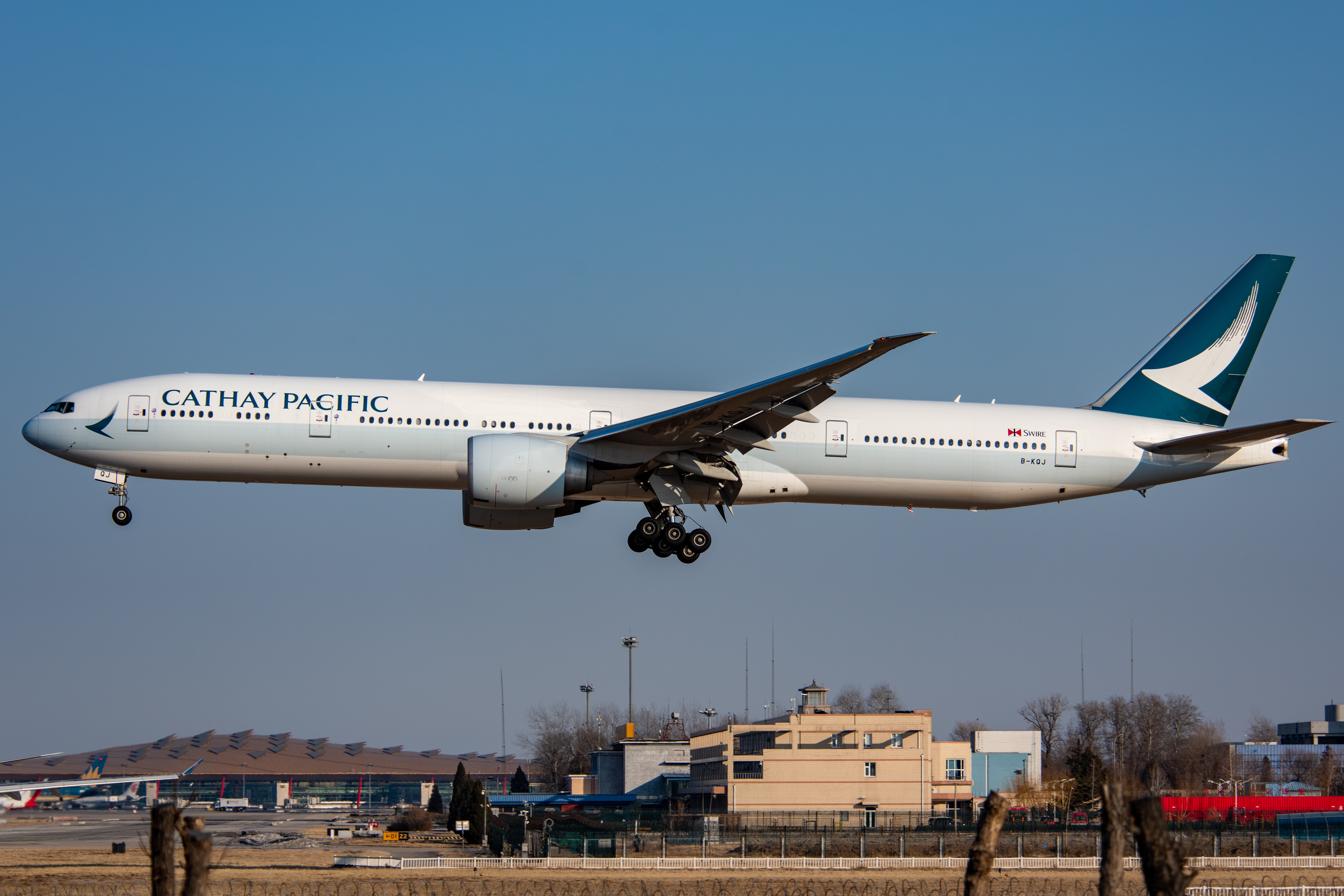 Cathay 332 from Hong Kong. Don't know why CX flew this 77A (with first class) here, and I wonder if CR400BF-B-5099 has Cathay's exterior advertisement as well. 5099 has seatback advertisements of CX. By the way, this registration... KQJ... King, Queen and Jack?